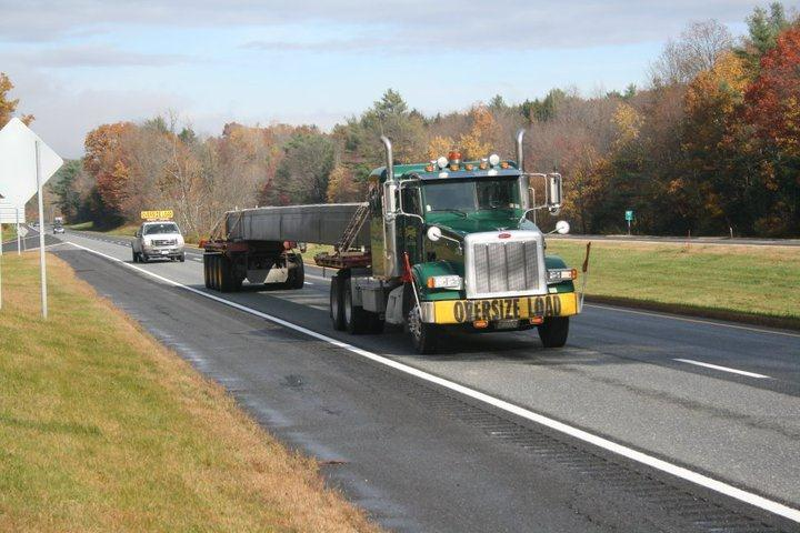 Long Bridge Beam hauled by Lester R. Summers, Inc.